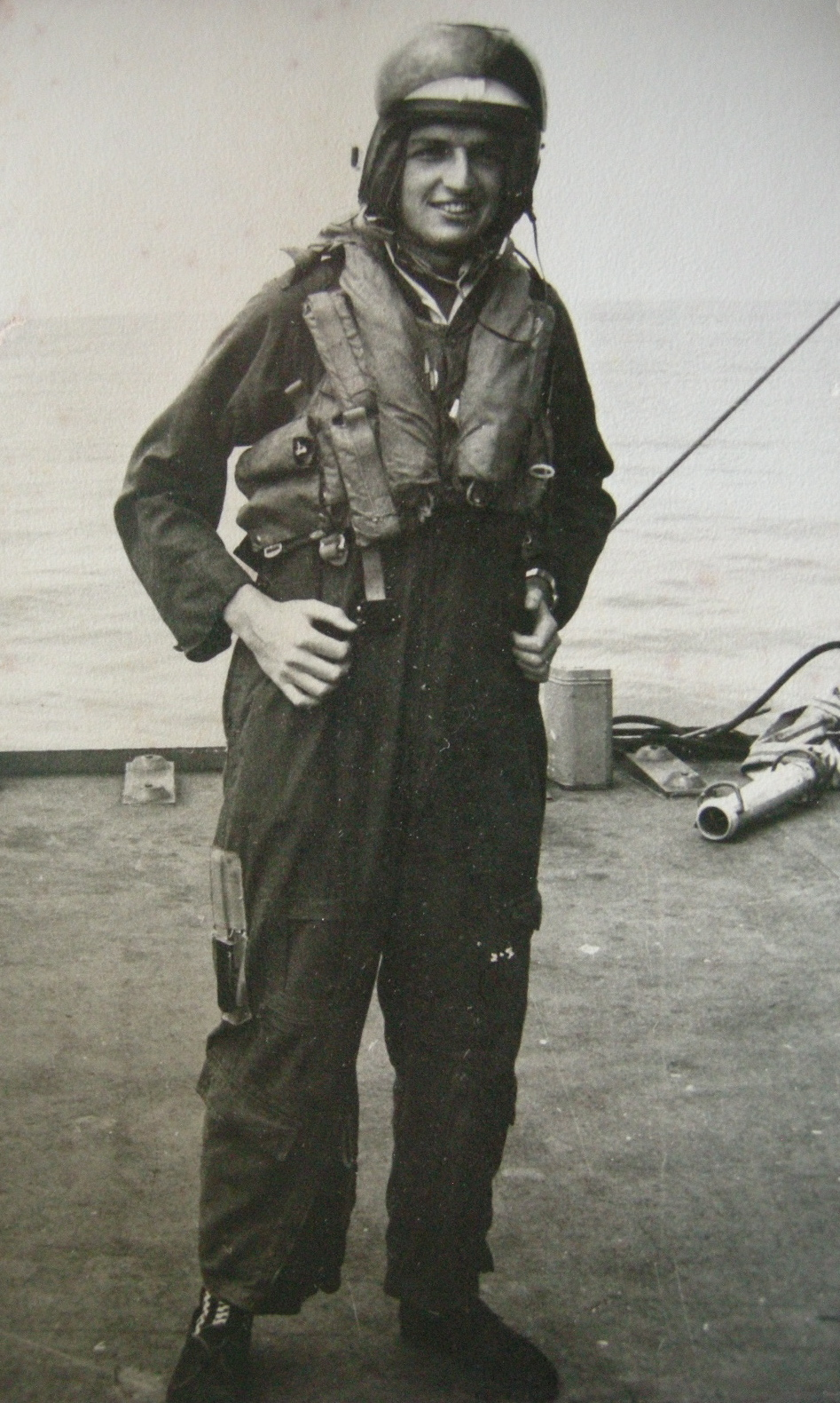 South African oceanographer Nils Bang aboard HMS Hecla off Port Nolloth, during a Benguela Current research cruise, just before taking off in a helicopter to look for signs of the interface between the cold, green Benguela water and the warm, blue south Atlantic water.